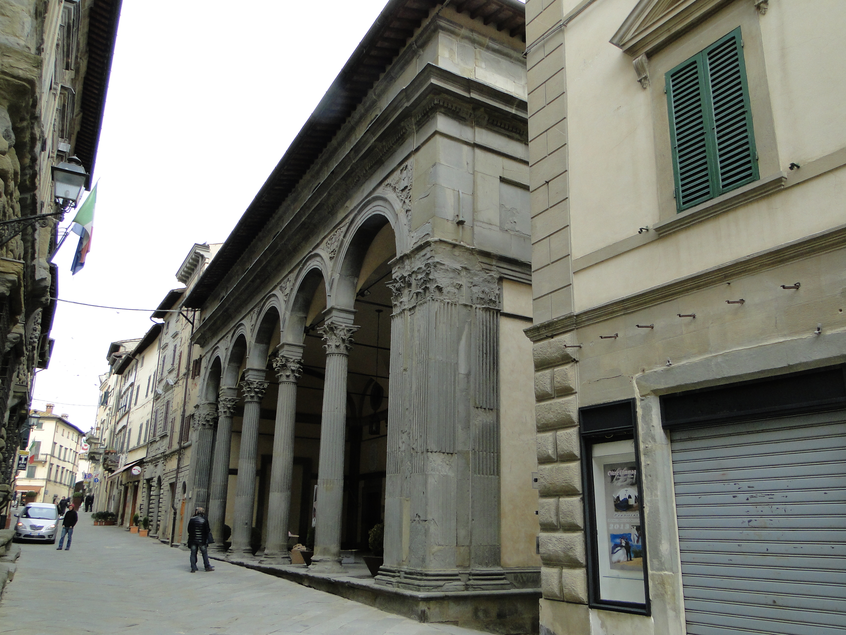 Merchant's Loggia